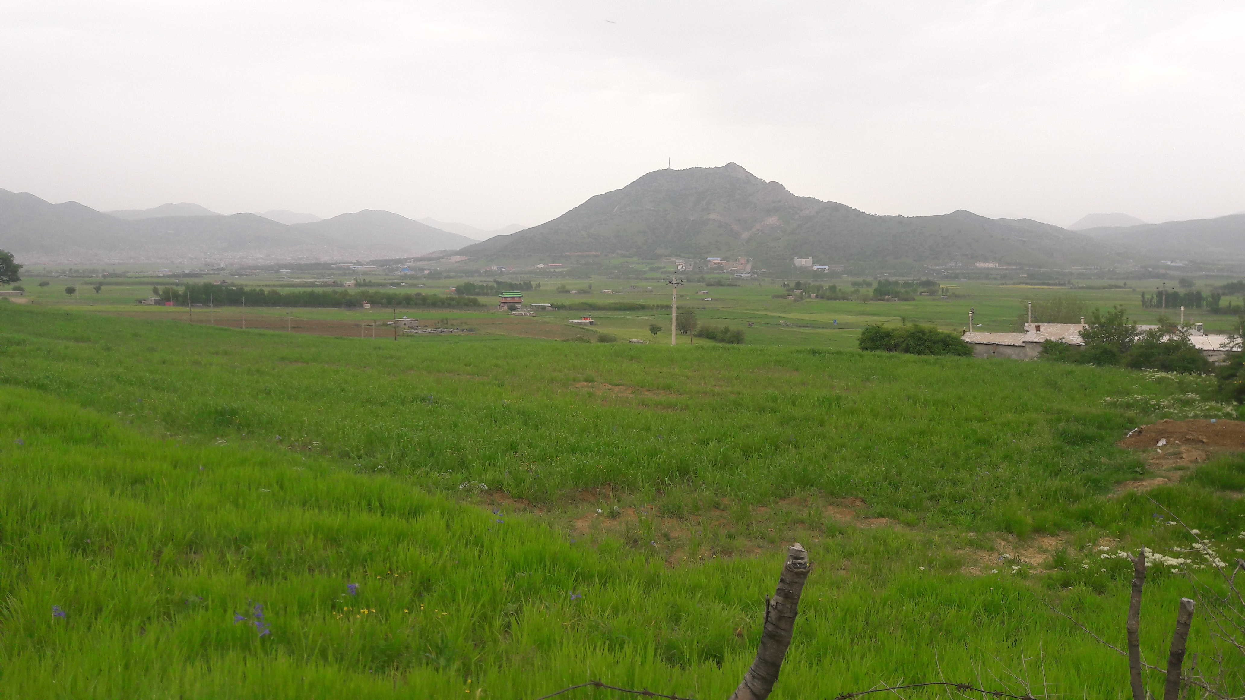 Kalkeh Jan